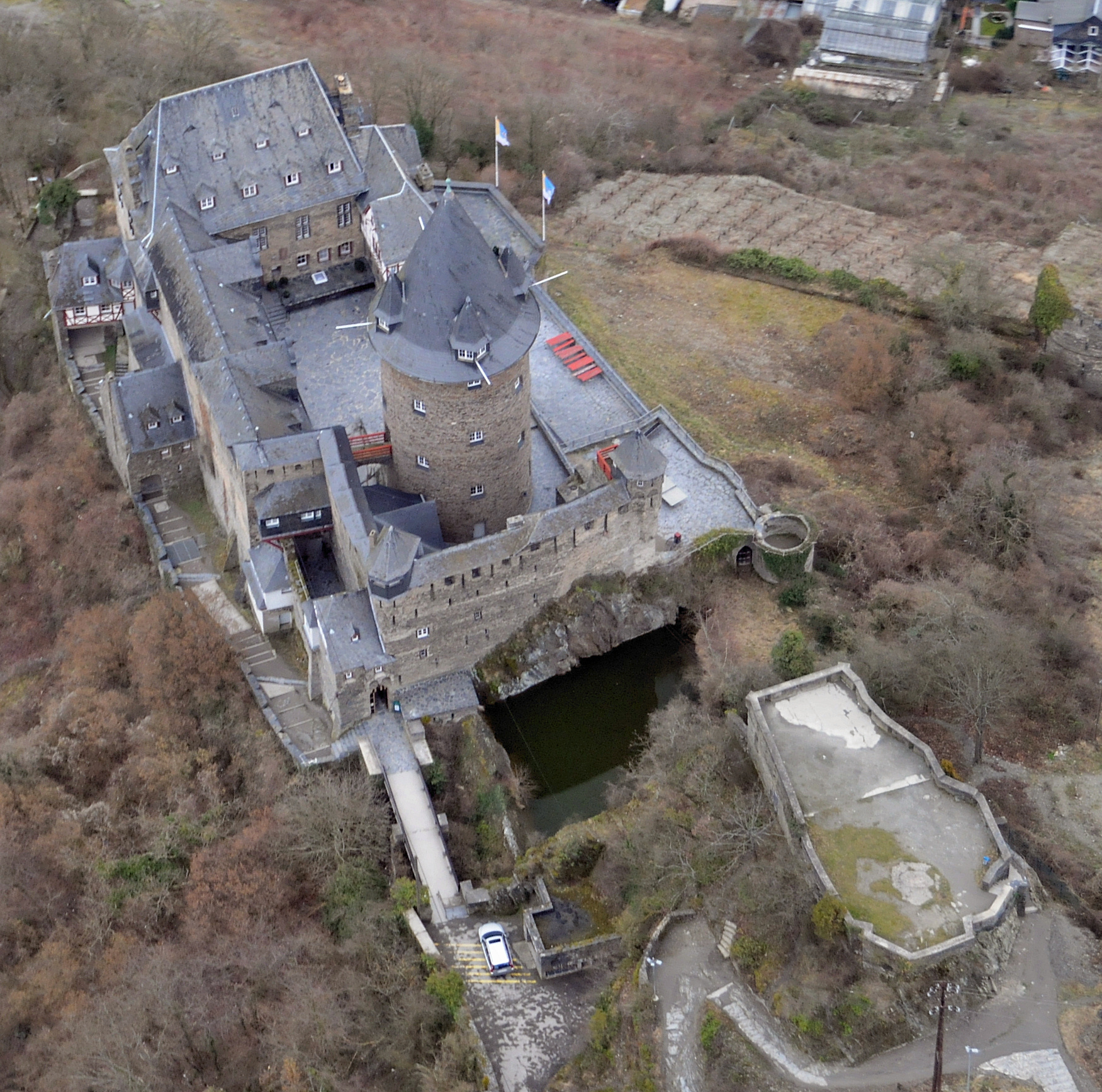 Aerial photograph of Stahleck Castle in Bacharach, western aspect